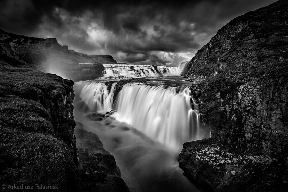 500px provided description: [#landscape ,#water ,#travel ,#clouds ,#rocks ,#black and white ,#landscapes ,#waterfall ,#iceland]